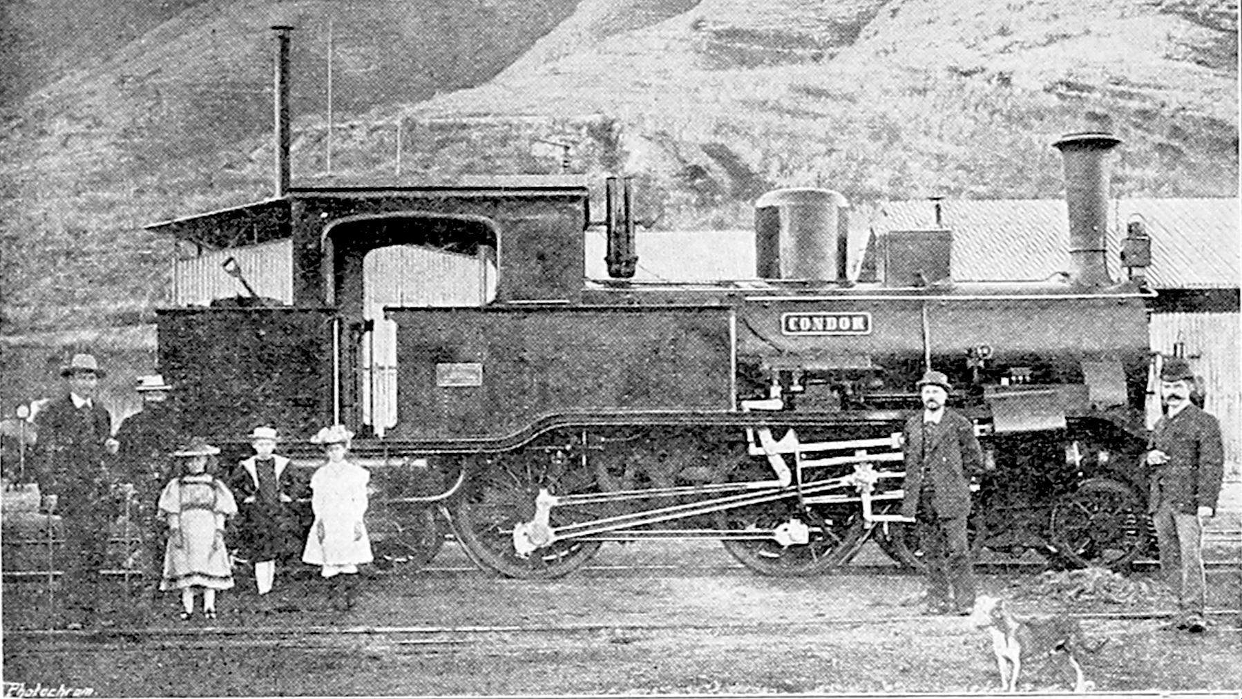 4-4-4 11m long tank locomotive with 1.28m (4ft 2in) driving wheels built by Hartmann's at Chemnitz